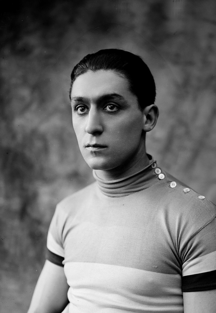 Depicted person: Pierre Sergent